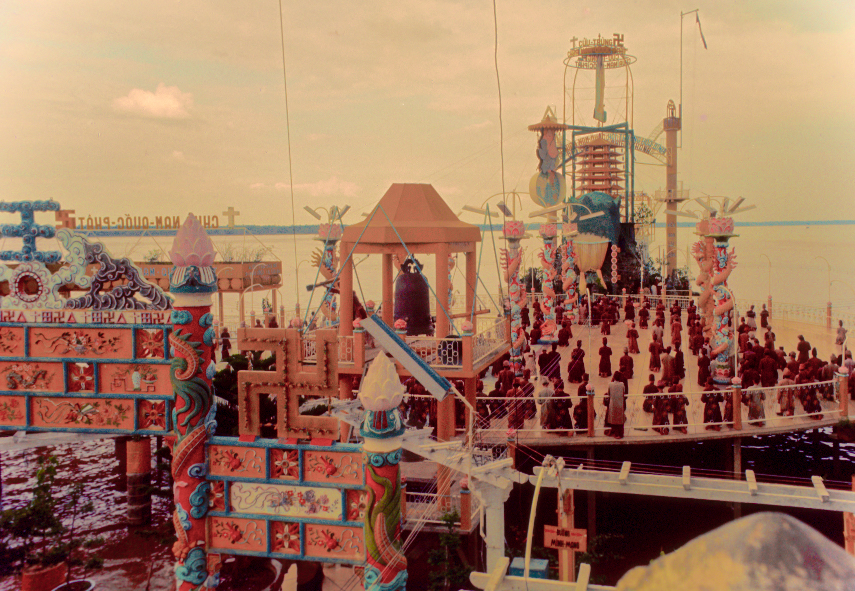 Photo taken by my brother John, now deceased, digitally scanned by me in 2013.